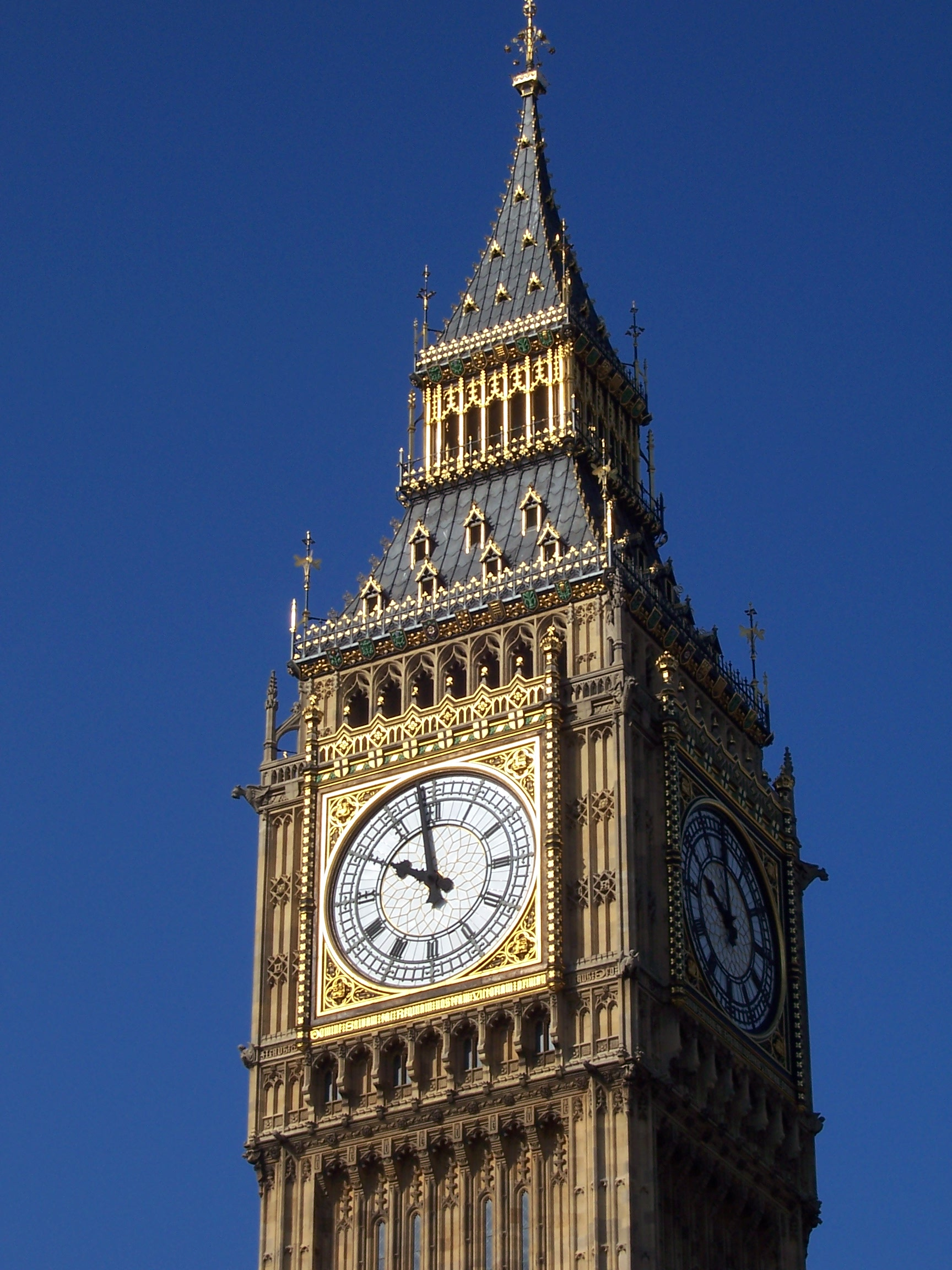 Close-up of the Big Ben on a sunny indian summer day